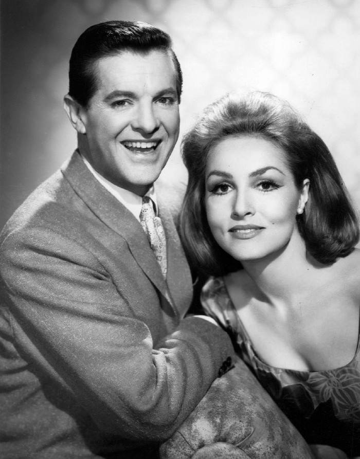 Photo of Bob Cummings and Julie Newmar from the television program My Living Doll.